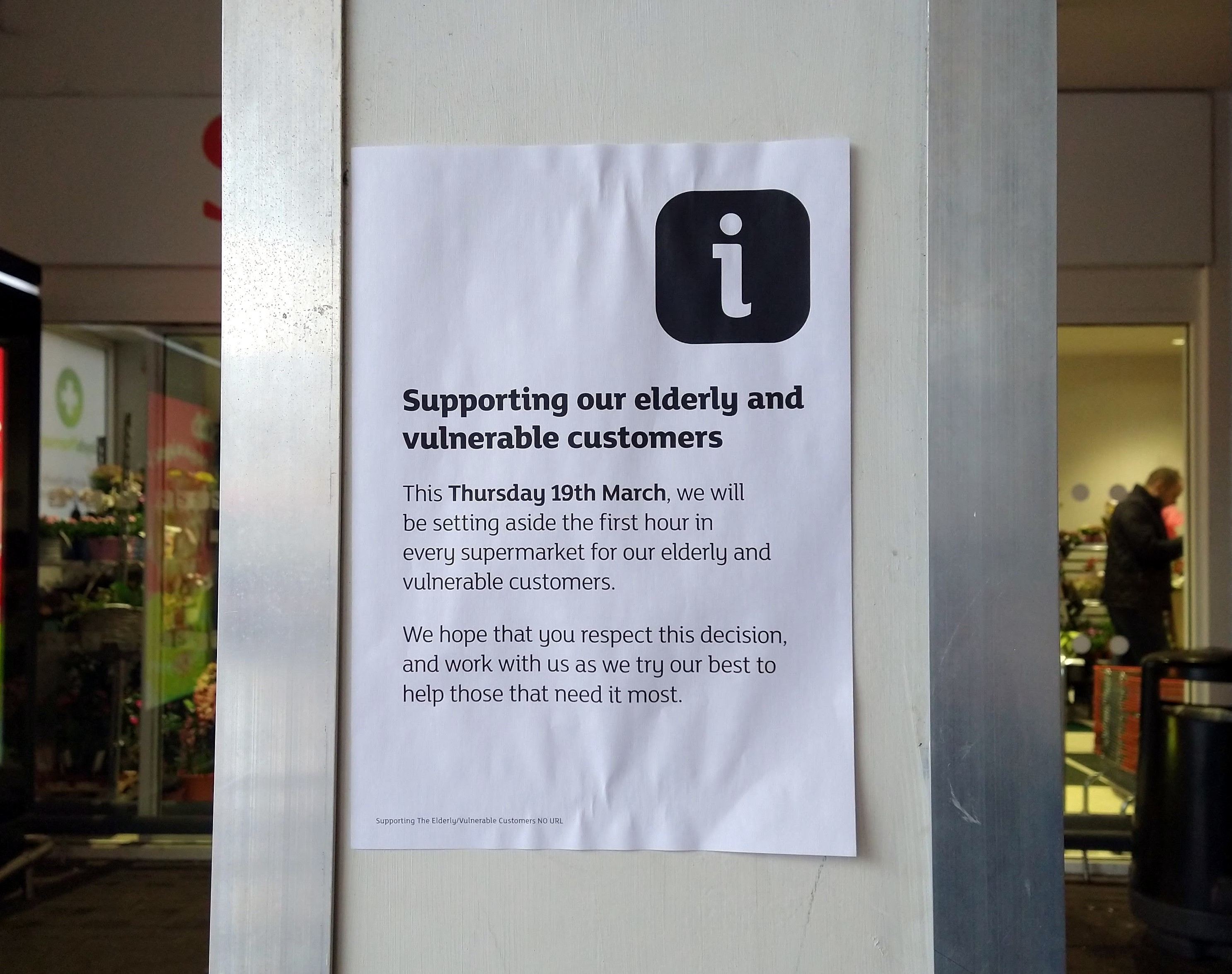 Elderly shopping hour at New Barnet Sainsbury's